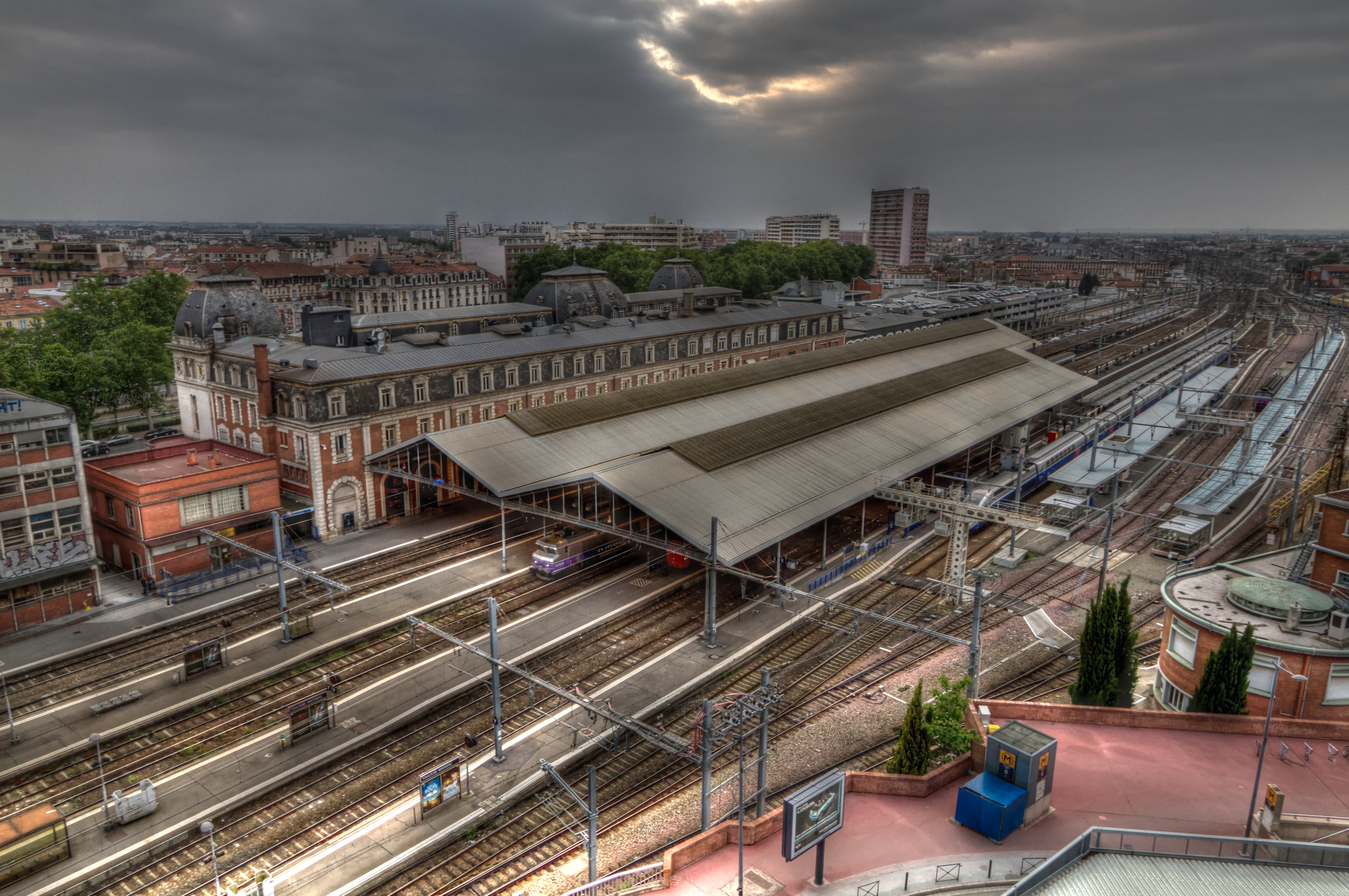 A High Dynamic Range (HDR) aerial view of Gare de Toulouse-Matabiau showing the station building and trainshed.